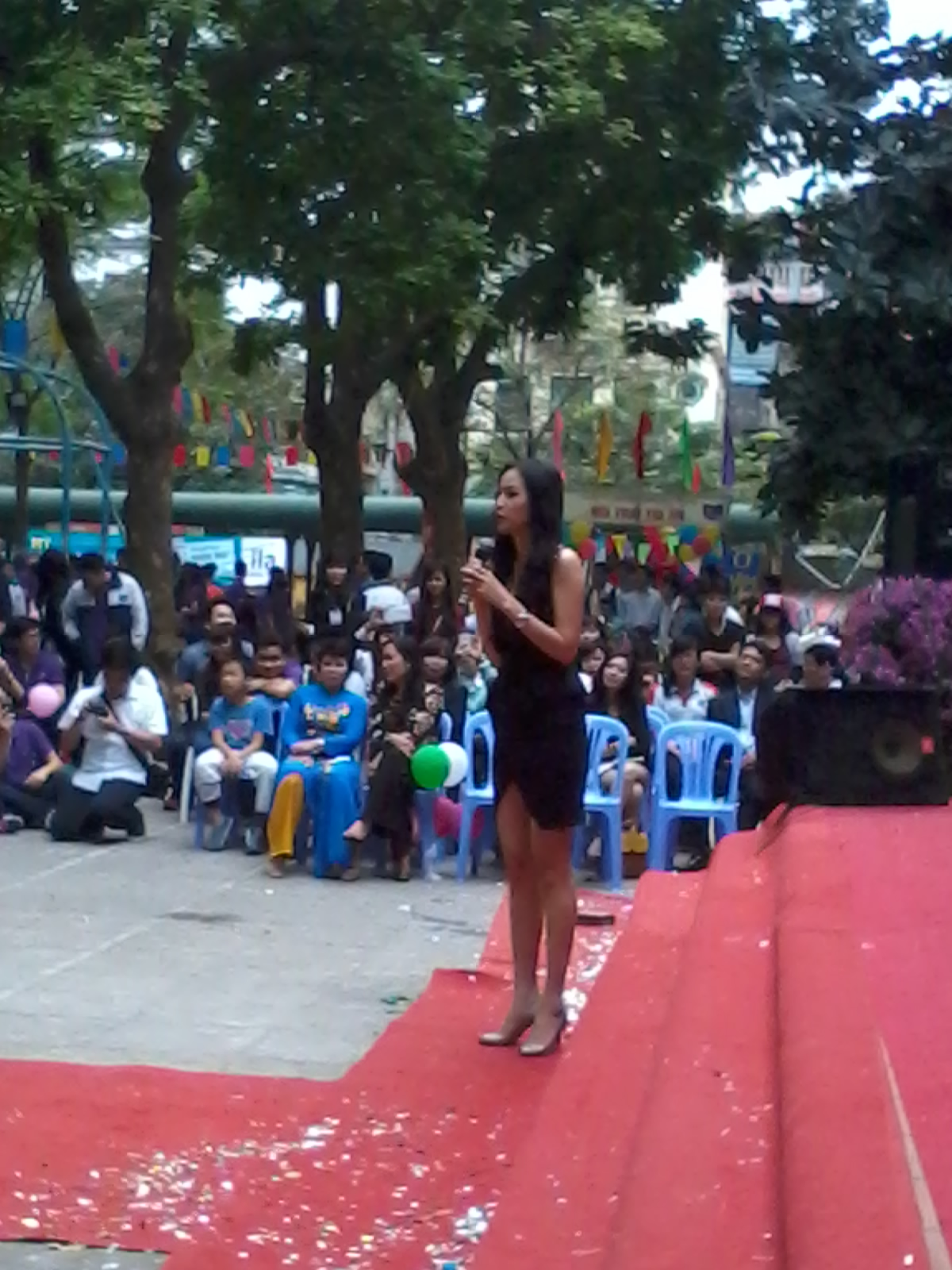 Mai Phuong Thuy at the Phan Dinh Phung 40th anniversary.